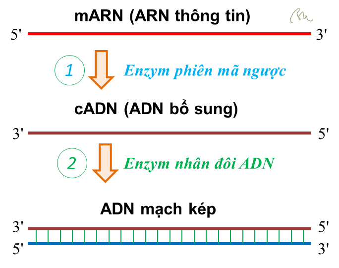 Formation of Complementary DNA (cDNA) from RNA.